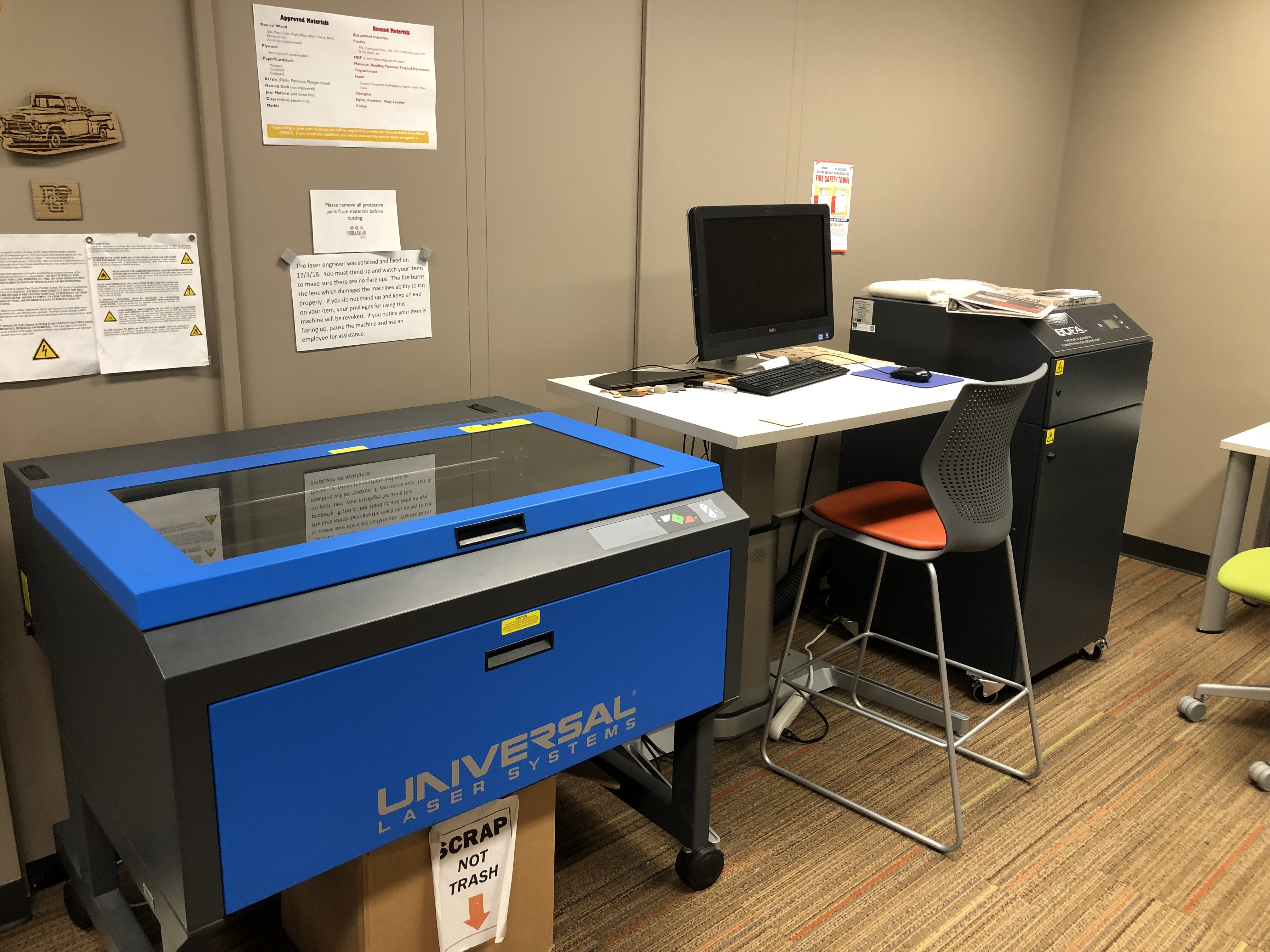 The laser cutter in the Collab Lab, Jerome Library. Instead of venting outside, a fume extractor (Right) is used.